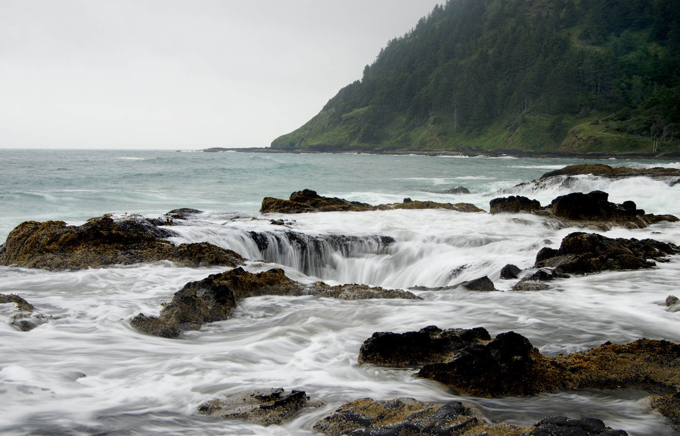 Thor's Well: a sinkhole at Cape Perpetua, Lincoln County, Oregon